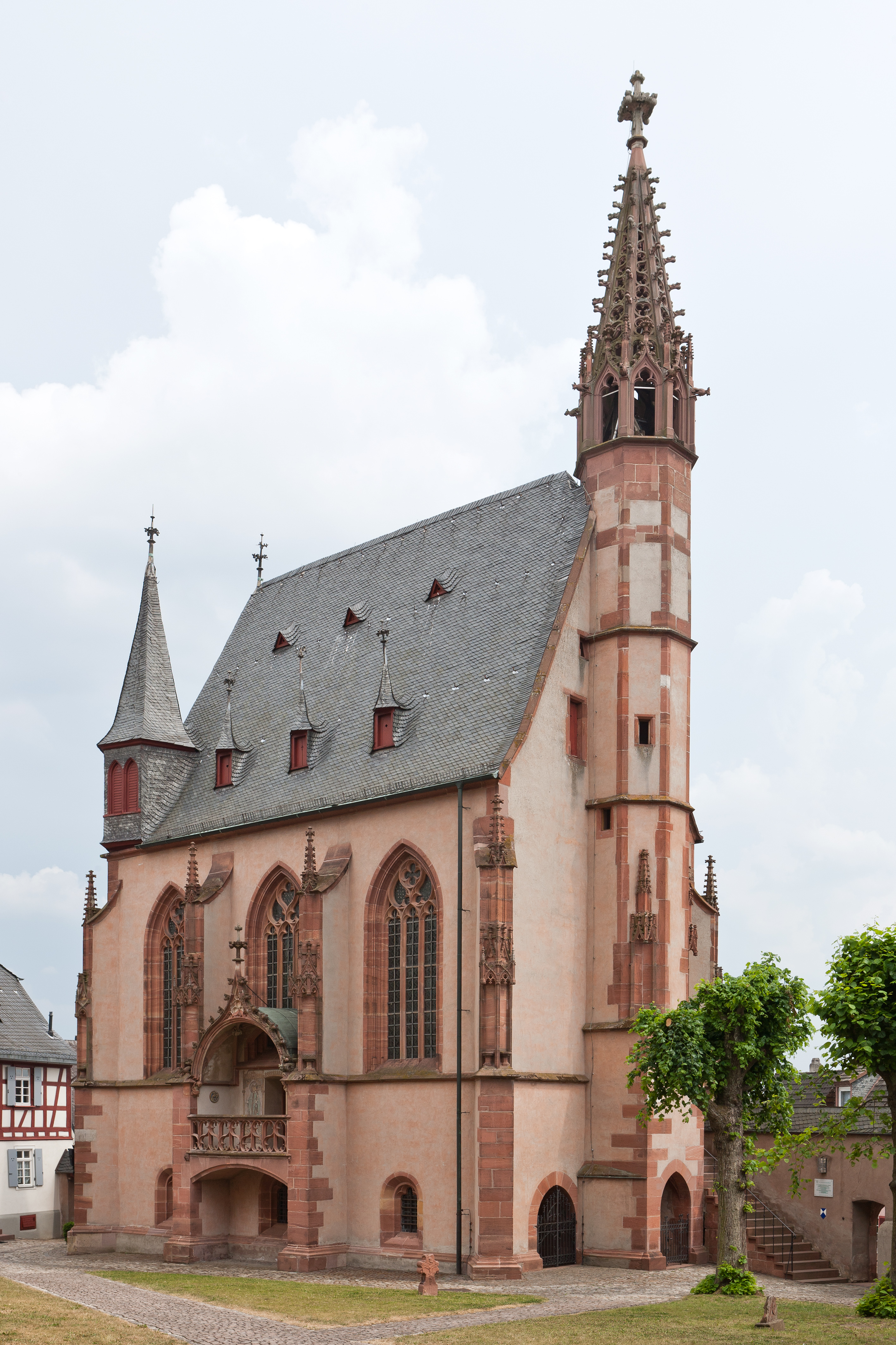 Kiedrich: Michaelskapelle (St. Michael's Chapel) as seen from the northwest